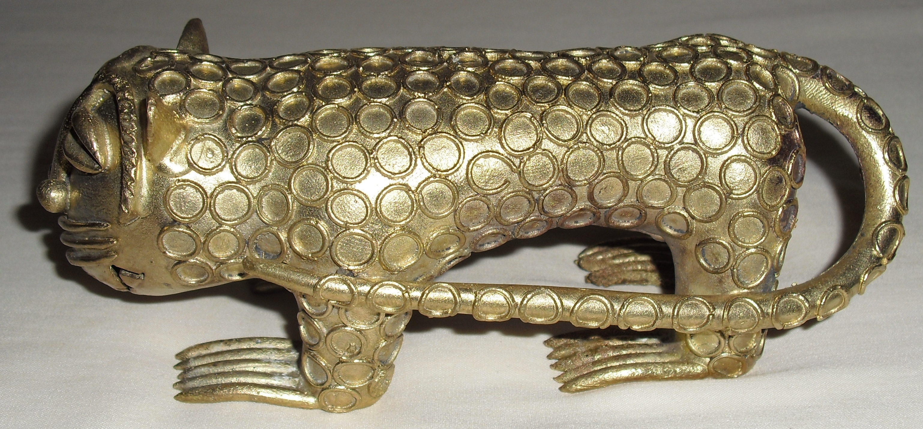 Ashanti brass figurine (leopard) made by the lost-wax casting technique in Krofrom, a small village near Kumasi in the Ashanti Region in Ghana. The figurine is 18 cm long.